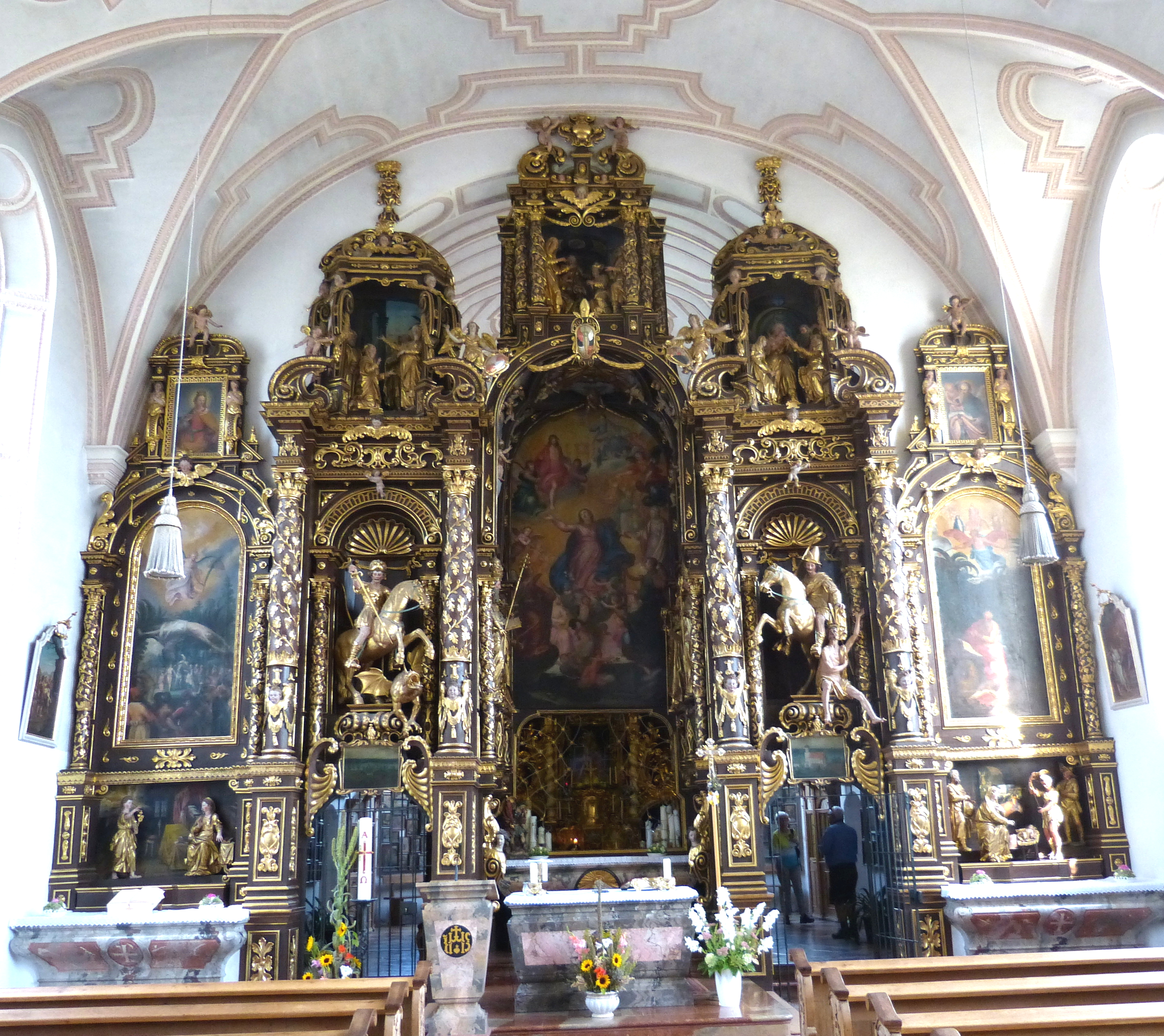 Sammarei ( Lower Bavaria ). Assumption of Mary church: Reredos ( 1647 ) by Jakob Bendl.